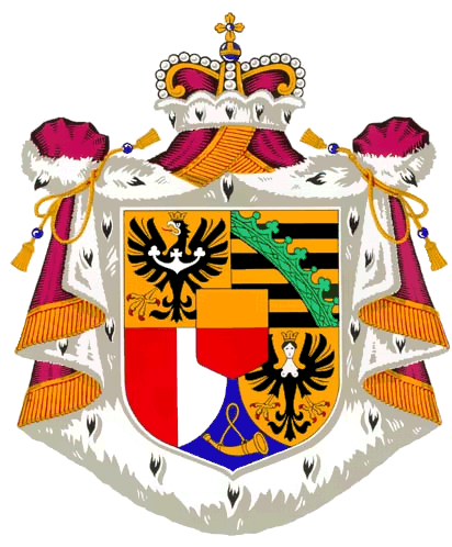 Coat of arms of Liechtenstein